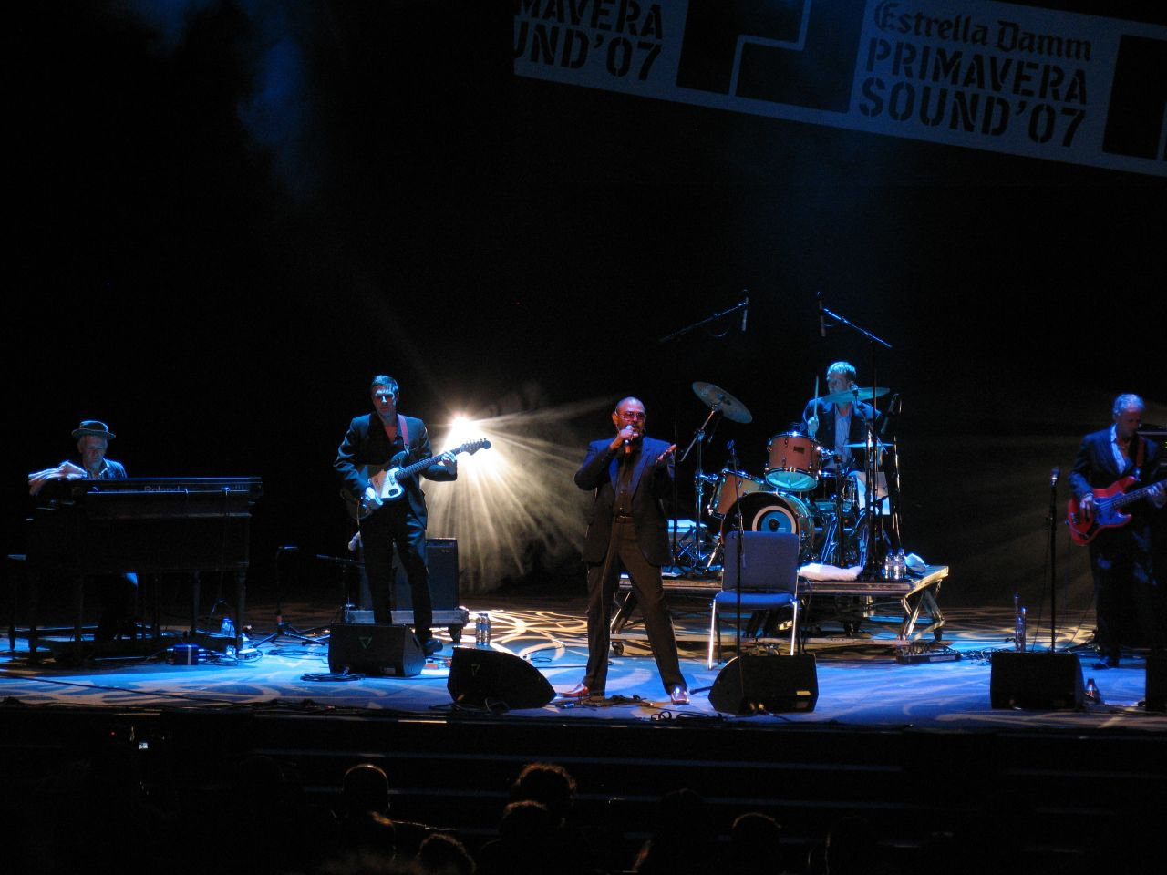 Barry Adamson cocnert in Primavera Sound 2007, Barcelona, Spain.